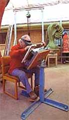 Chaim Goldberg, woodengraving in his outdoor studio, Houston, TX, circa 1977. Photo by Shalom Goldberg